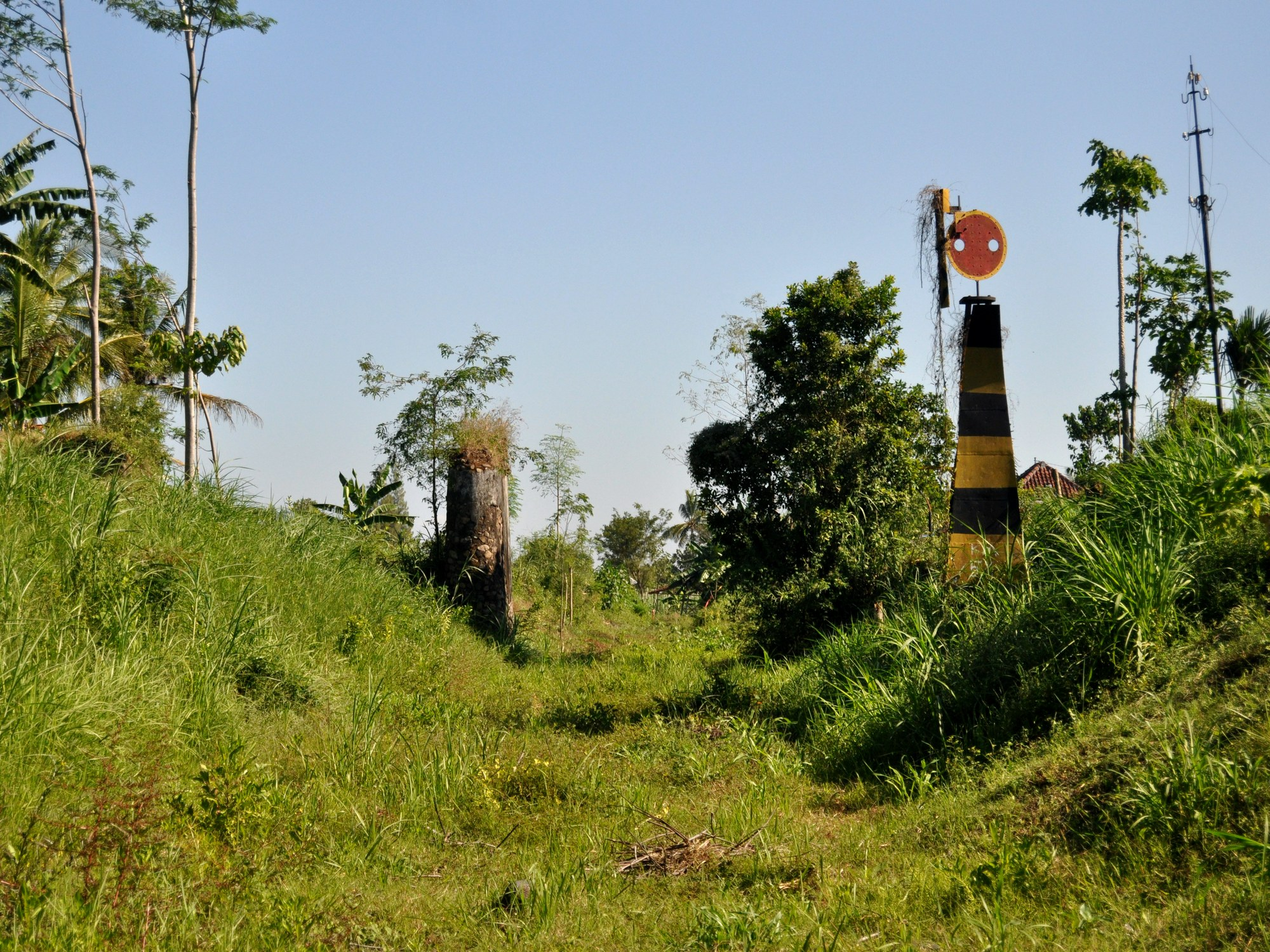 Ex Prajekan train station, closed since 2004, in Bondowoso Regency, East Java. Old, manual railway signal.